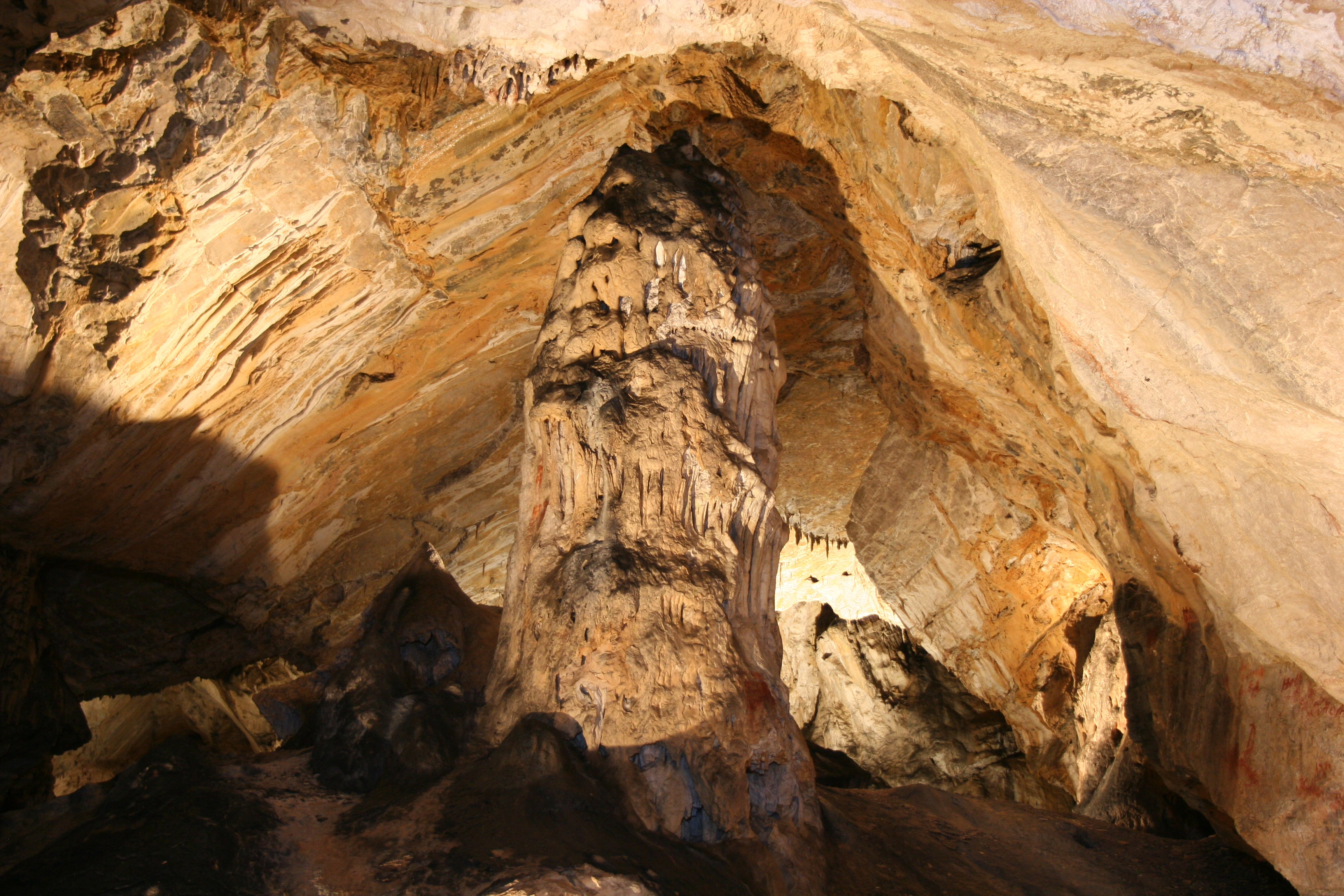 Demänová Ice Cave (Demänovská ľadová jaskyňa), Slovakia. Taking this photo was made possible through the financial support of Wikimedia Polska.